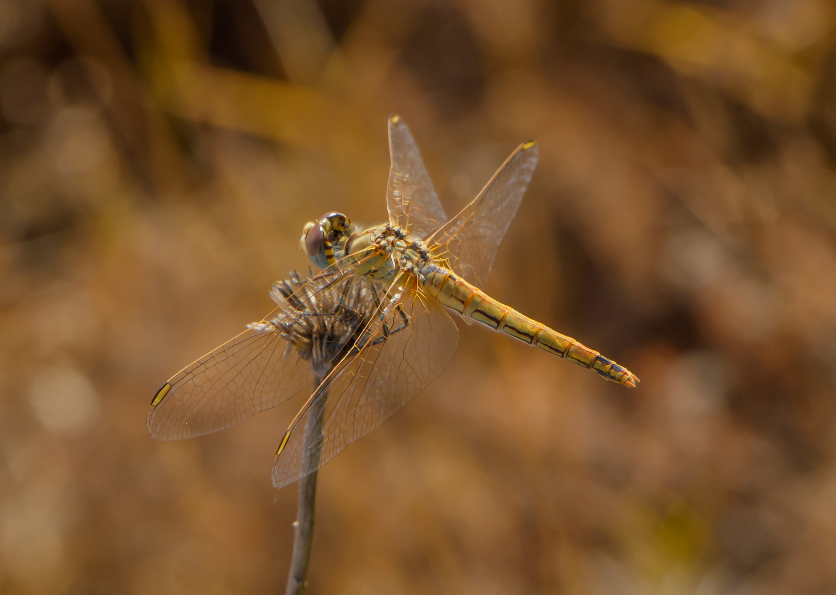 Sympetrum sanguineum (O. F. Müller, 1764), Ruddy darter, female; Cap Leucate, Leucate, Département Aude, France